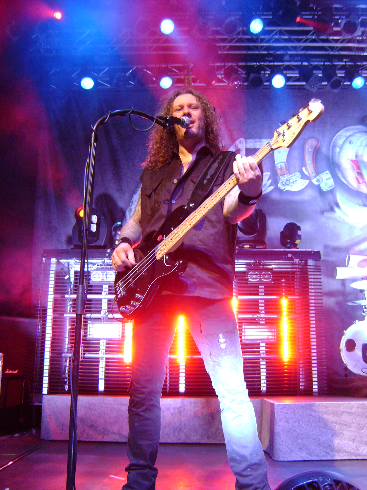 Markus Grosskopf, bass guitarist of the German Power Metal Band "Helloween", in December 2010, during the band's tour with Trick or Treat and Stratovarius, at the Effenaar in Eindhoven.